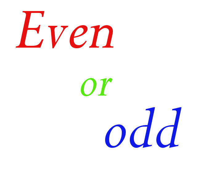 Fill signal for a linear keyer